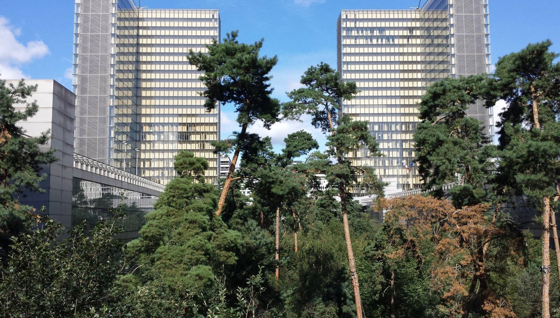 The photo shows two of the BnF towers and the woodland area inside the courtyard of the BnF.